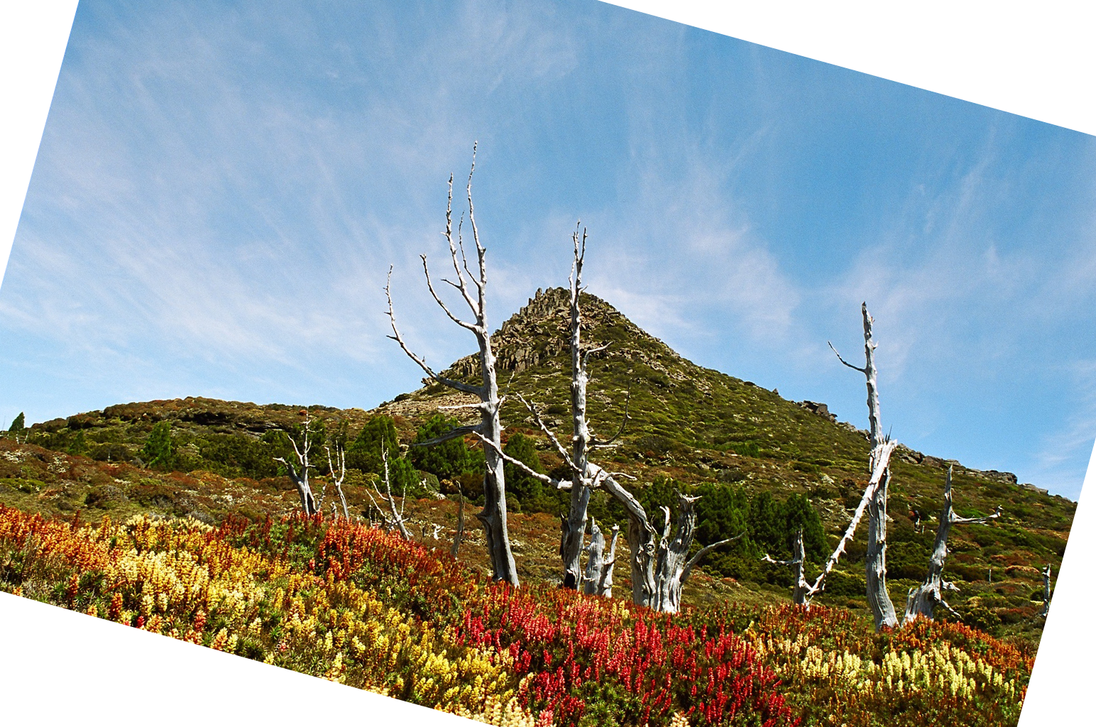 Wild Flowers on Mount Ossa summer of 2004.